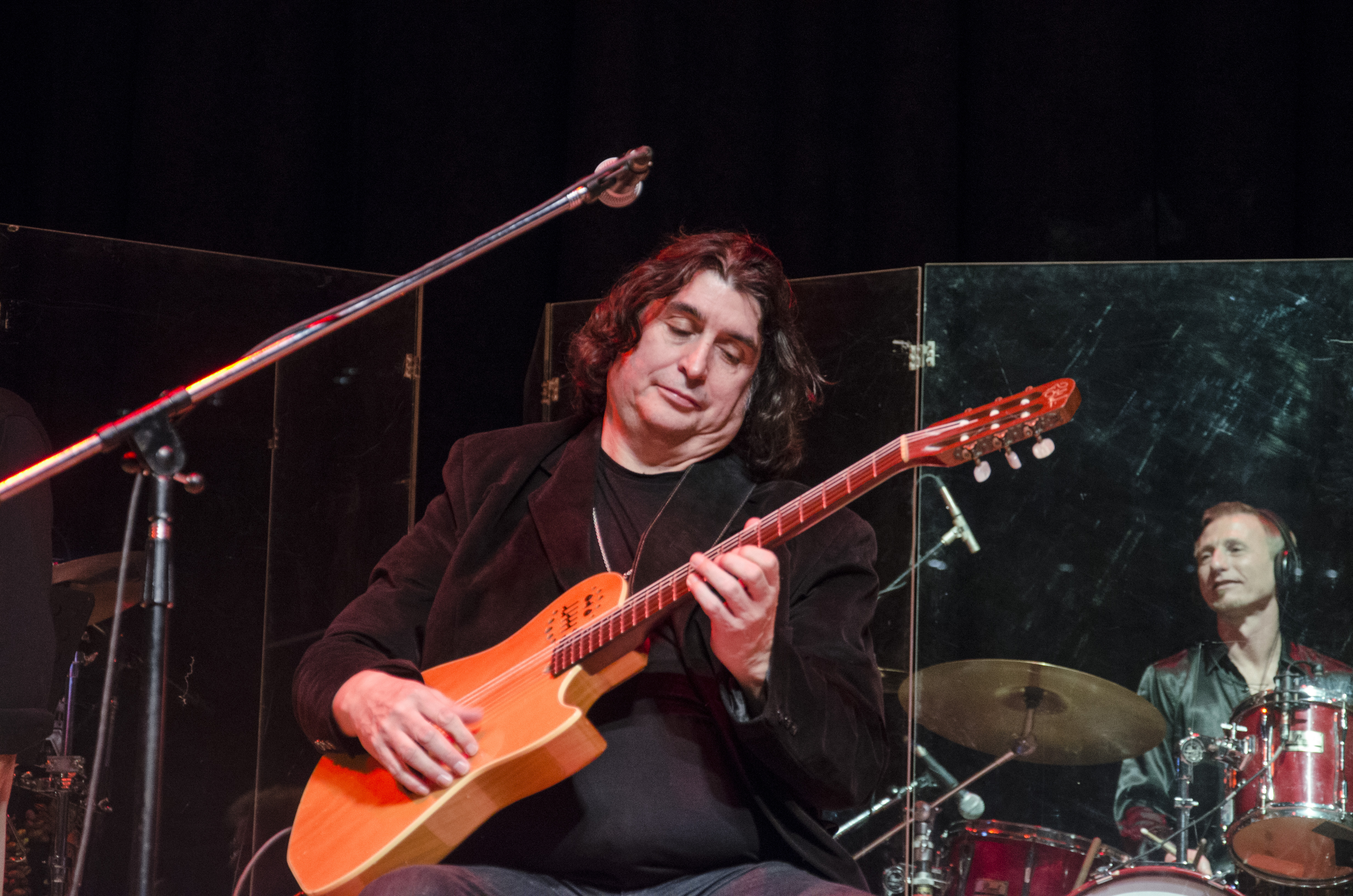 Buenos Aires, 3 de julio de 2015 - En el marco del Festival Internacional Piano Piano, se realizó un homenaje a Manolo Juárez. Se presentaron Adrián Iaies, Jorge Navarro, Luis Salinas, Diego Schissi, Leo Sujatovich, Carlos “Negro” Aguirre, Daniel Homer, Haydée Schvartz, Elías Gurevich, Marian Farías Gómez, Juan Carlos Baglietto, Silvina Garré, Mono Izaurralde, Galo García, Verónica Condomí, Pablo Fraguela, Roberto Calvo, Mono Hurtado, Colo Belmonte, Lucas Homer, Facundo Guevara y Lilian Saba, bajo la dirección de Lito Vitale.Fotos: Romina Santarelli / Ministerio de Cultura de la Nación.